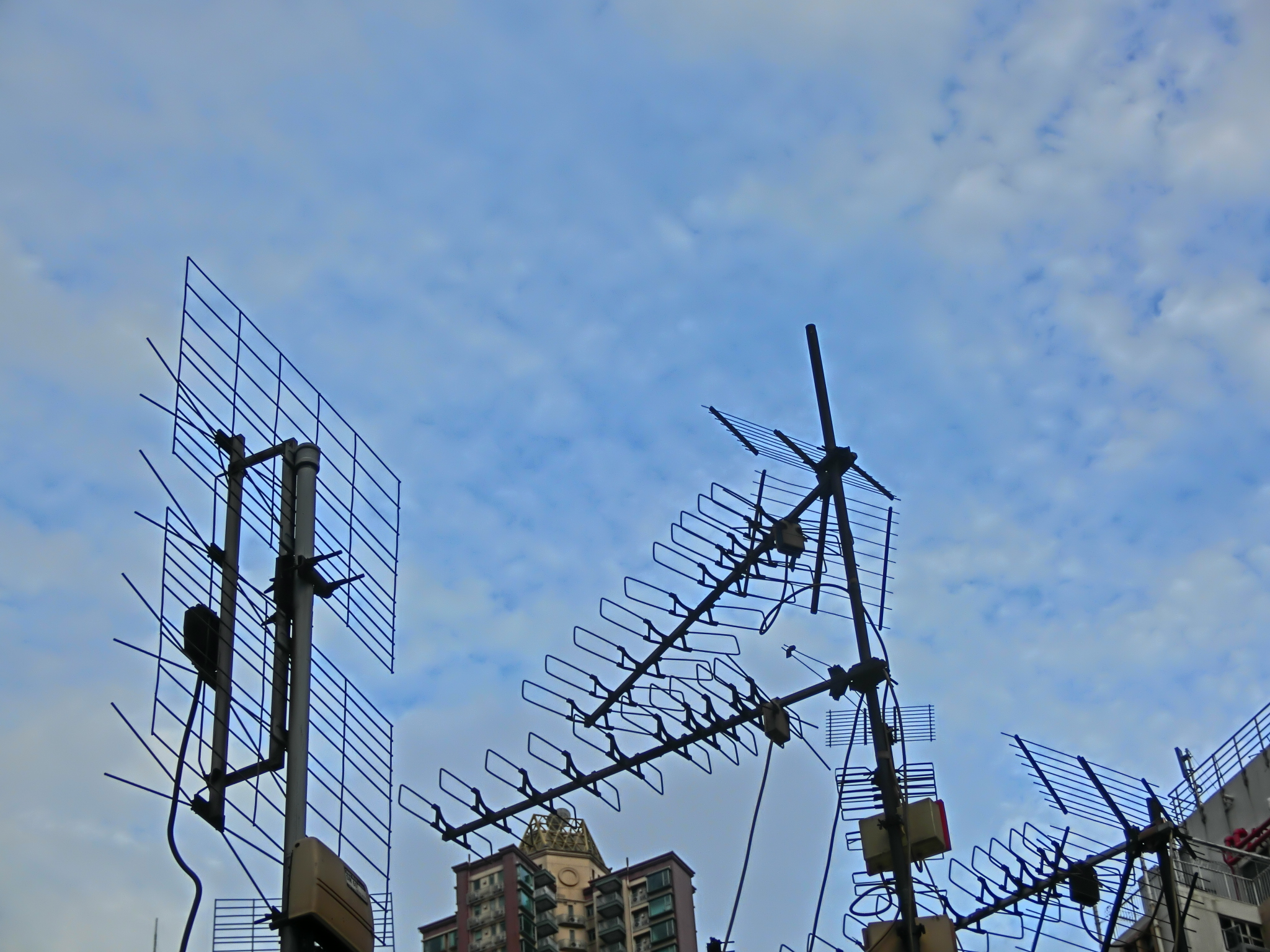 魚骨天線, Sheung Wan, Hong Kong